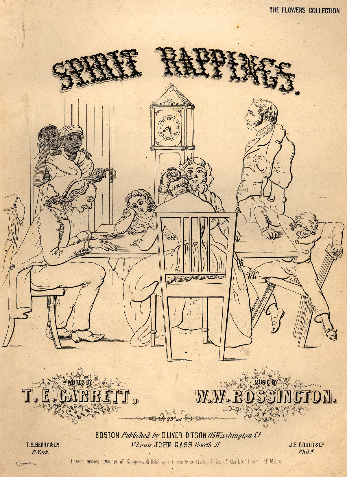 downloaded from American Memory[1] (Sheet music cover page, for voice and piano) Rossington, W. W. and Garrett, J. Ellwood (Lyricist) Spirit rappings. Boston; St. Louis, Massachusetts; Missouri, Oliver Ditson & Co.; John Gass, 1853. DIGITAL COLLECTION: Historical American Sheet Music: 1850-1920 CALL/REPRODUCTION NUMBER: Music A-8564 REPOSITORY: Rare Book, Manuscript, and Special Collections Library, Duke University